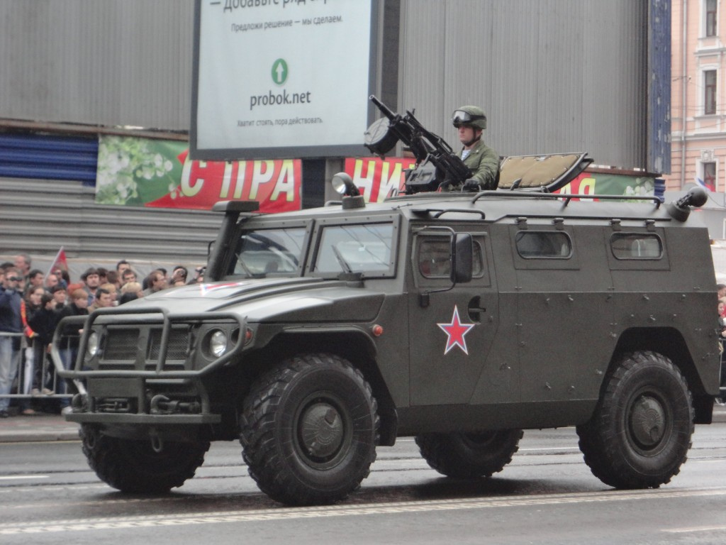 Russian GAZ-2975 Tigr during the Victory parade 2012.